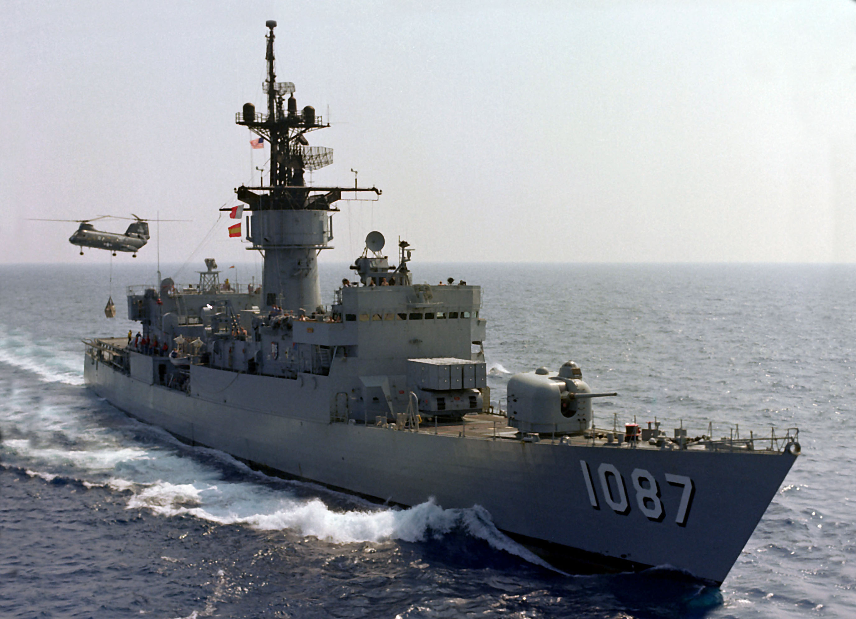 A UH-46 Sea Knight Helicopter lowers an external load of cargo to the deck of the frigate USS KIRK (FF-1087).